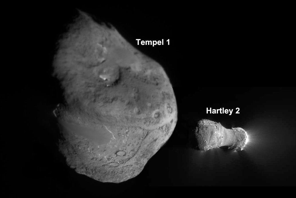 This image shows the nuclei of comets Tempel 1 and Hartley 2, as imaged by NASA's Deep Impact spacecraft, which continued as an extended mission known as EPOXI. Tempel 1 is five times larger than Hartley 2. Visible jets are easily seen in images of Hartley 2, but required extensive processing to be seen in images of Tempel 1. Tempel 1 is 7.6 kilometers (4.7 miles) in the longest dimension. Hartley 2 is 2.2 km (1.4 miles) long. The Tempel 1 image was built up from more than 25 images captured by the impactor targeting sensor on July 4, 2005. The Hartley 2 image was obtained by the Medium- Resolution Imager on Nov. 4, 2010.